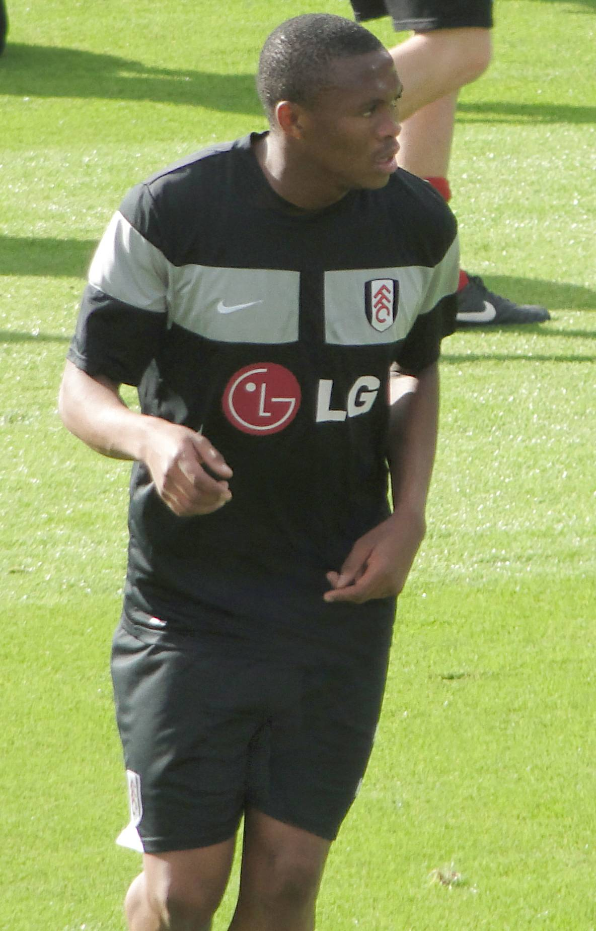 Kagisho Dikgacoi warming-up before his debut game for Fulham, against West Ham at The Boleyn Ground